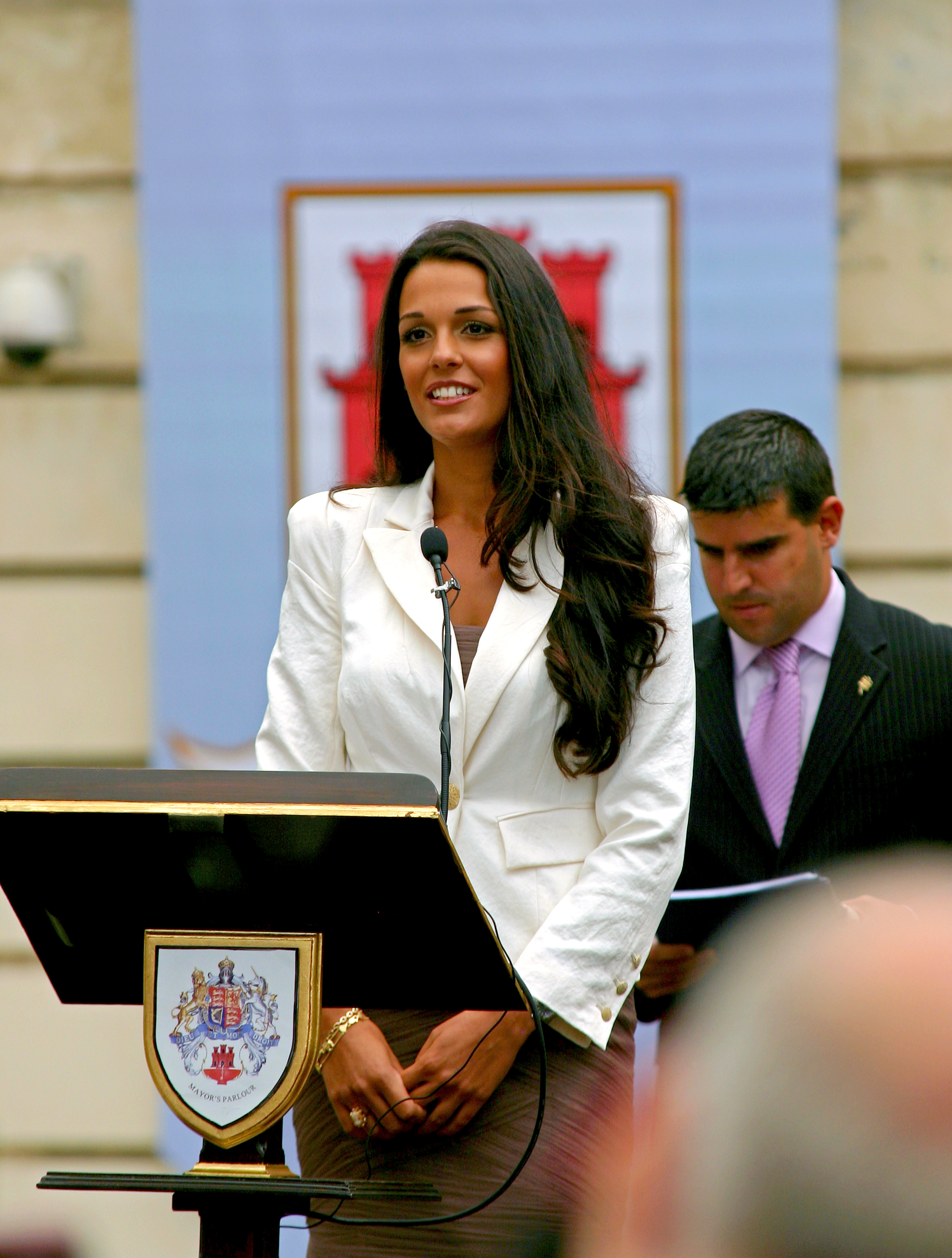 Miss World and Miss Gibraltar 2009, Kaiane Aldorino was officially awarded the Freedom of the City of Gibraltar which she received in a public ceremony on the 15th September 2011.